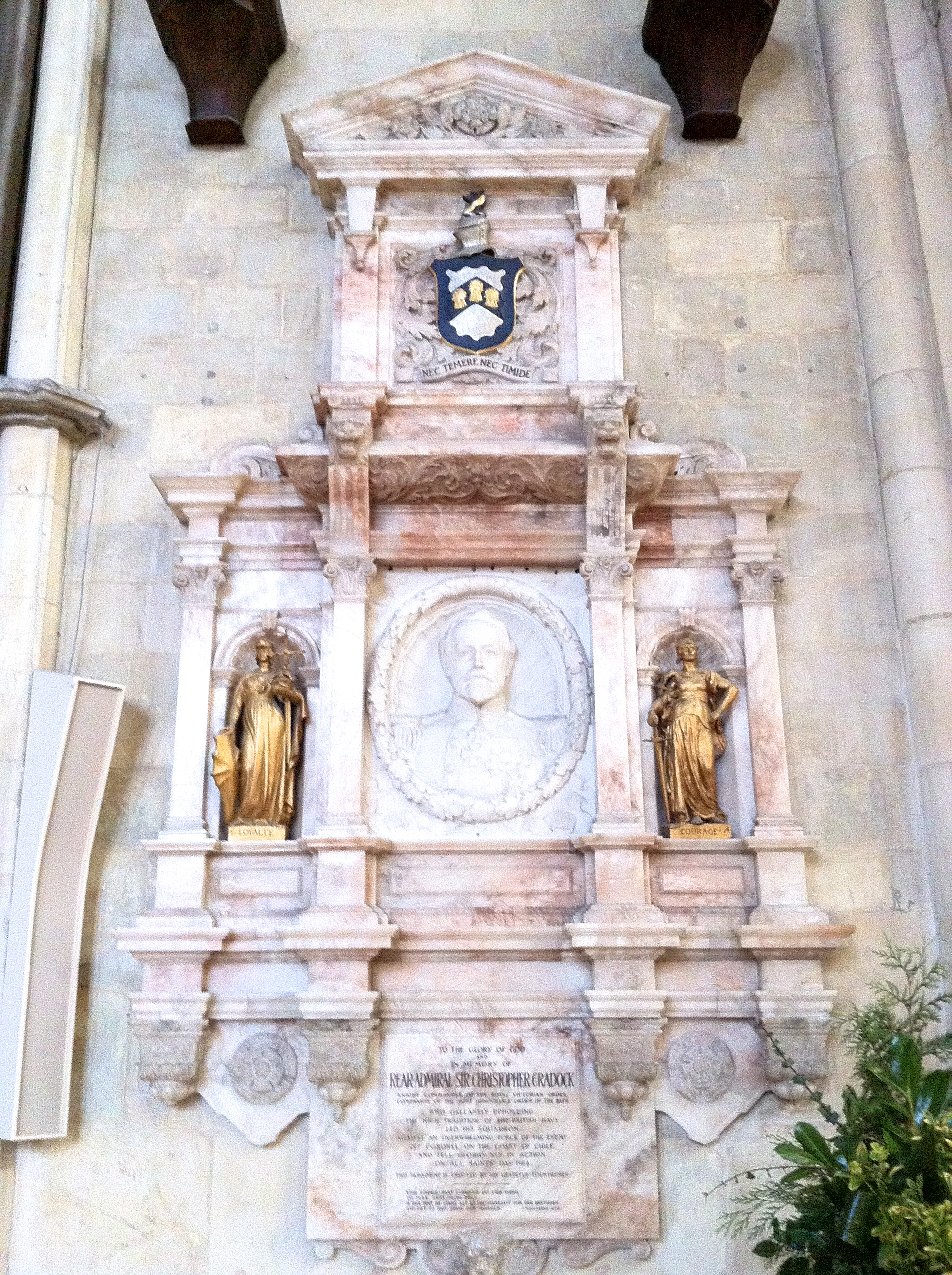 In the north transept of York Minster. Pink alabaster (1916) by Frederick William Pomeroy. Inscription reads: To the Glory of God and in Memory of Rear-Admiral Sir Christopher Cradock, Knight Commander of the Royal Victorian Order, Companion of the Most Honourable Order of the Bath. Who gallantly upholding the high tradition of the British Navy led his squadron against an overwhelming force of the enemy off Coronel, on the coast of Chile, and fell gloriously in action on All Saints' Day 1914. This monument is erected by his grateful countrymen.